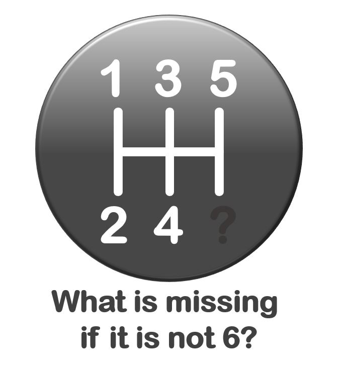 Missing symbol is a thinking outside the box example. This is an example of Aplusclick collection of puzzles: The answer would be the letter "R" for "reverse gear" in automotive shift patterns.